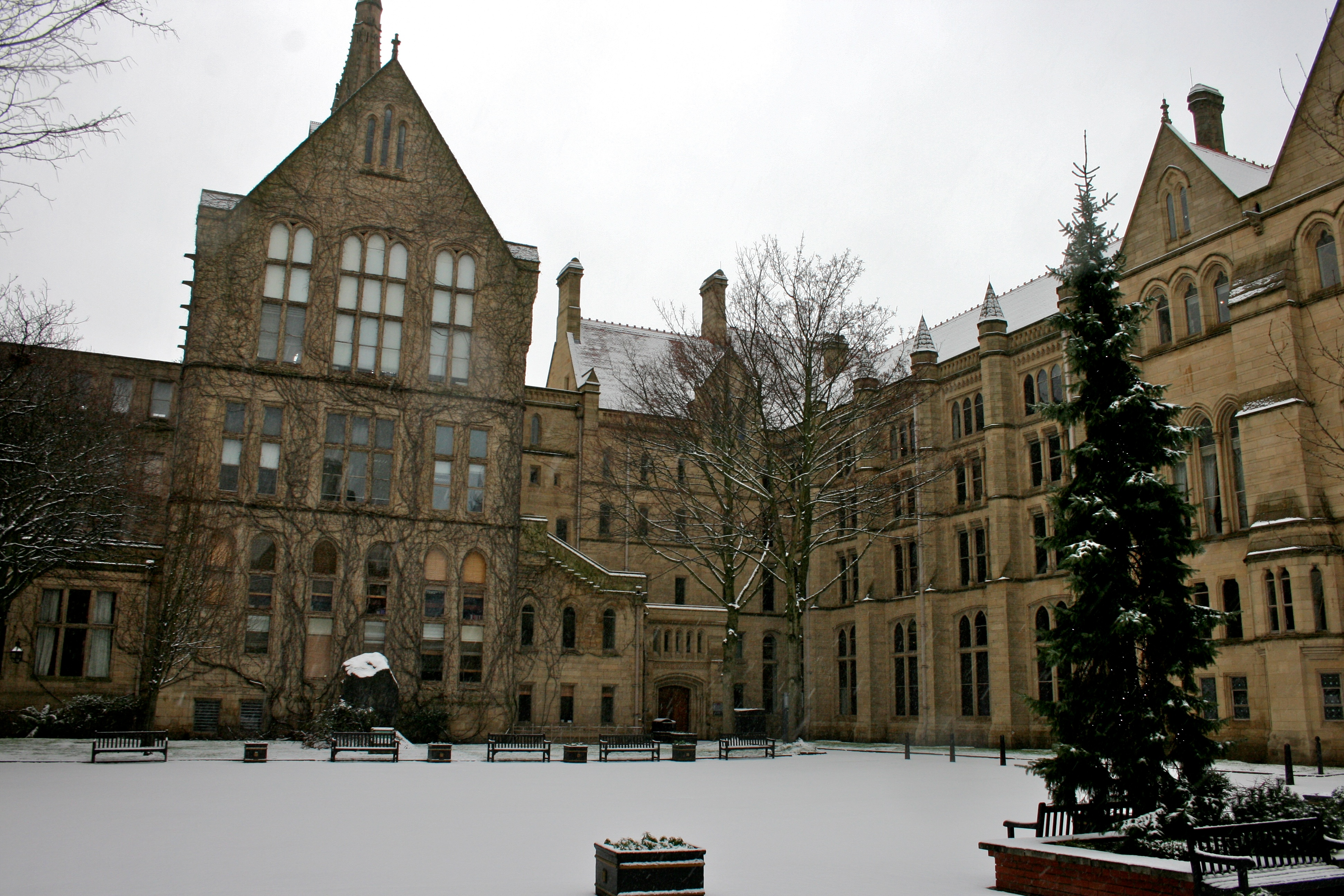 Old Quadrangle, Manchester, in the snow. This quad doubled as the entrance to the Louvre in Paris in the Sherlock Holmes episode "The Final Problem" (1985) starring Jeremy Brett.